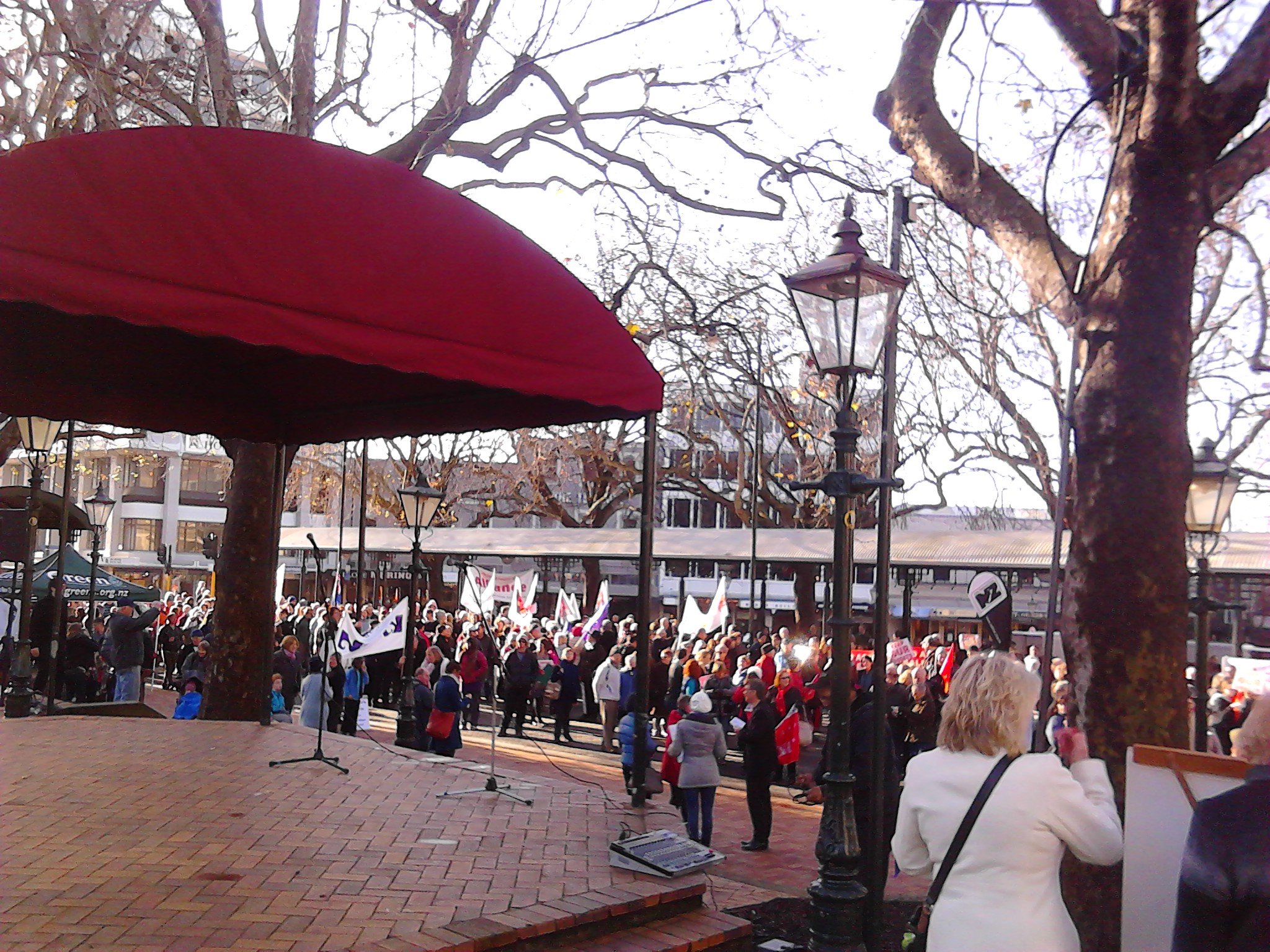 Protest in Dunedin against asset sales (upcoming referendum).